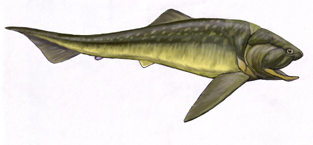 Titanichthys sp. from Late Devonian of Morocco.